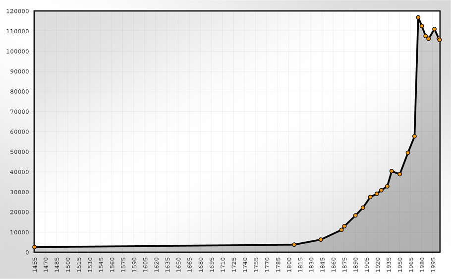 This image shows the population statistics of Siegen (Germany).